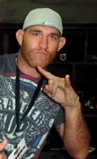 MMA fighter Tom Lawlor